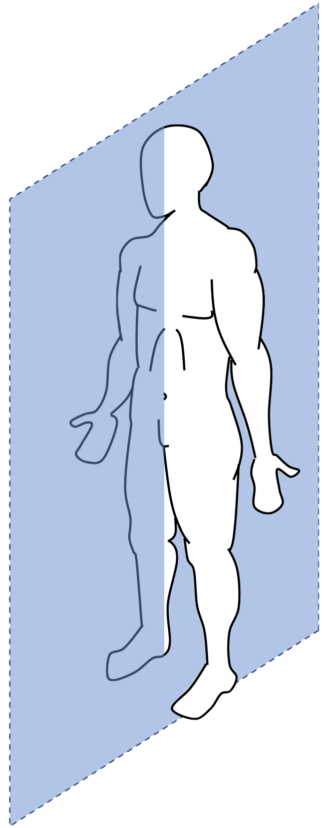 A diagram of the sagittal plane of the human body, made in microsoft word